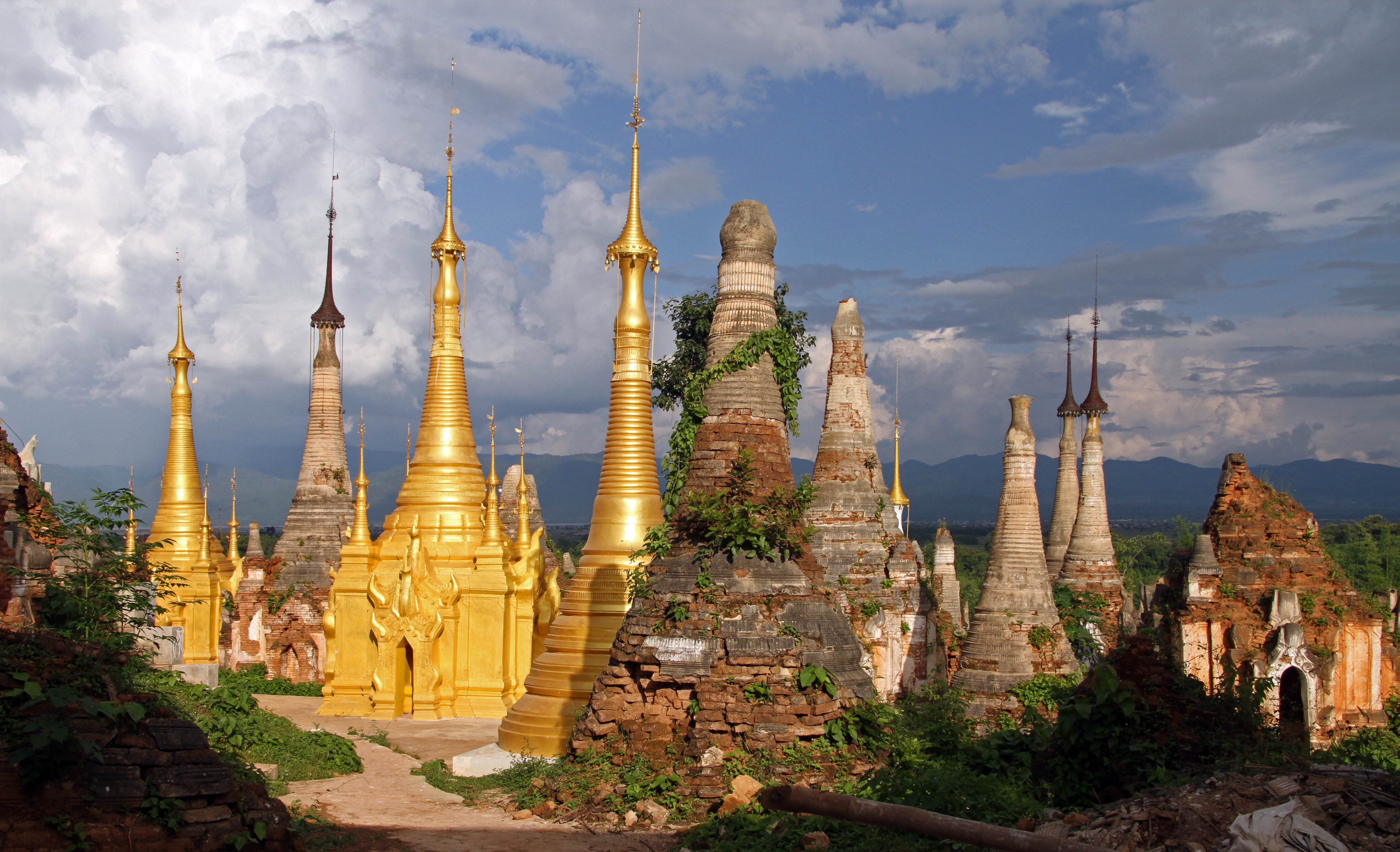 In Dein monastery at Inle Lake in Myanmar.